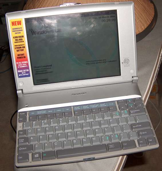 An image of the Sharp Mobilion PRO PV5000A Handheld PC, which runs Windows CE 2.11/MIPS on a Toshiba TX3922U CPU (@129MHz MIPS II). More info on this particular device on this Linux/MIPS Wiki page.